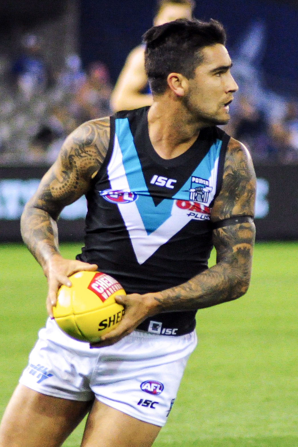 Chad Wingard during the AFL round six match between North Melbourne and Port Adelaide on Saturday, 28 April 2018 at Etihad Stadium in Melbourne, Victoria.